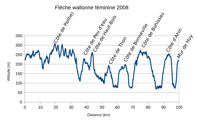 Profile of Flèche wallonne féminine 2008